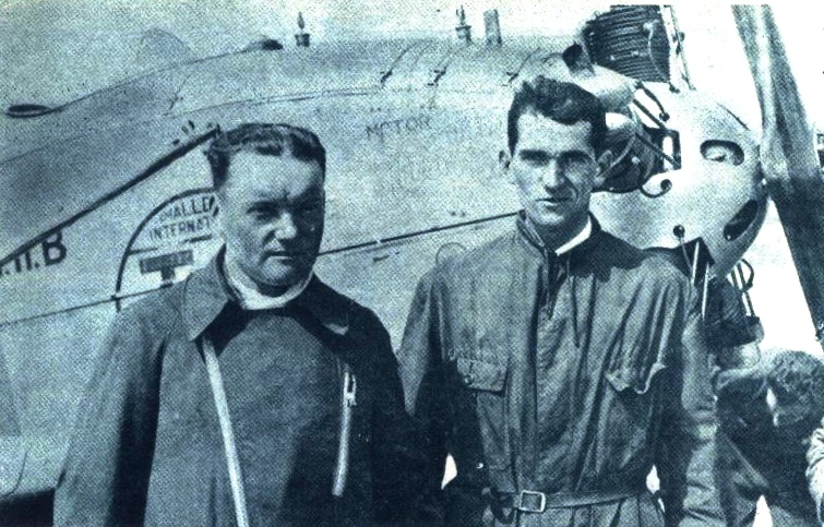 Aviator Senior Captain František Klepš and aircraft technician Bartl in front of the aircraft Avia BH-11. Contest "Challenge International de Tourisme 1929".